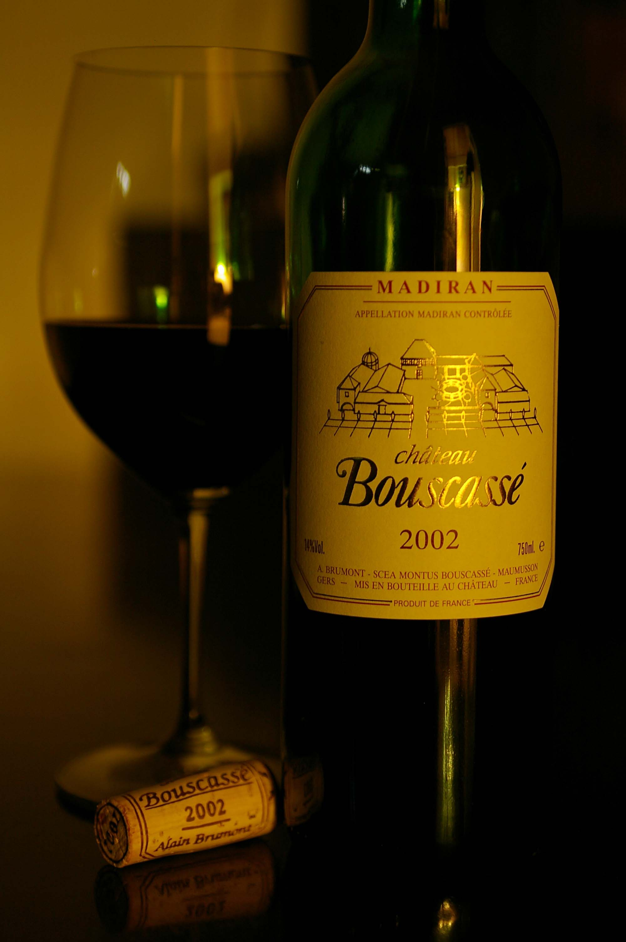 A glass of the red French wine Madiran from Southwest France.